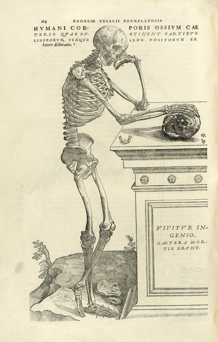 Illustration from De humani corporis fabrica, Basileae: 1543, by Andreas Vesalius (1514-1564). Typ 565.43.868, Houghton Library, Harvard University